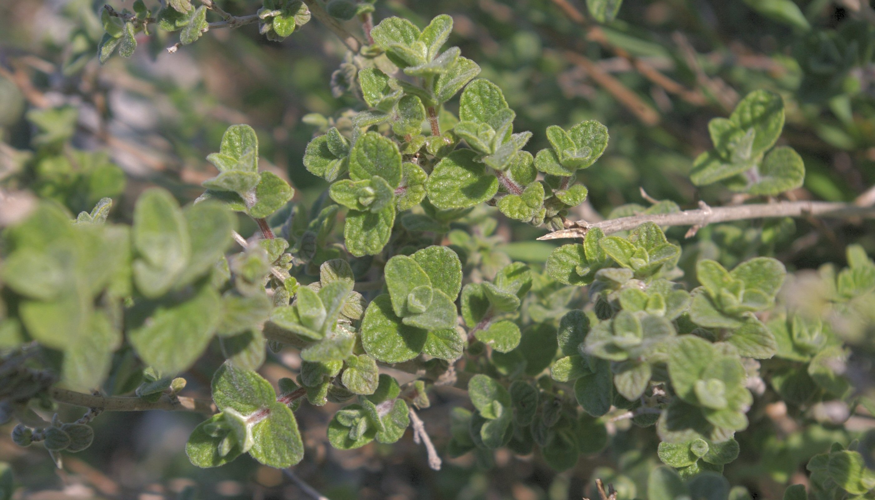 Origanum syriacum (syn. Majorana syriaca), new growth.